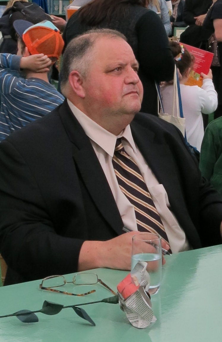 Author of Neurotribes, at the Hay on Wye Festival.